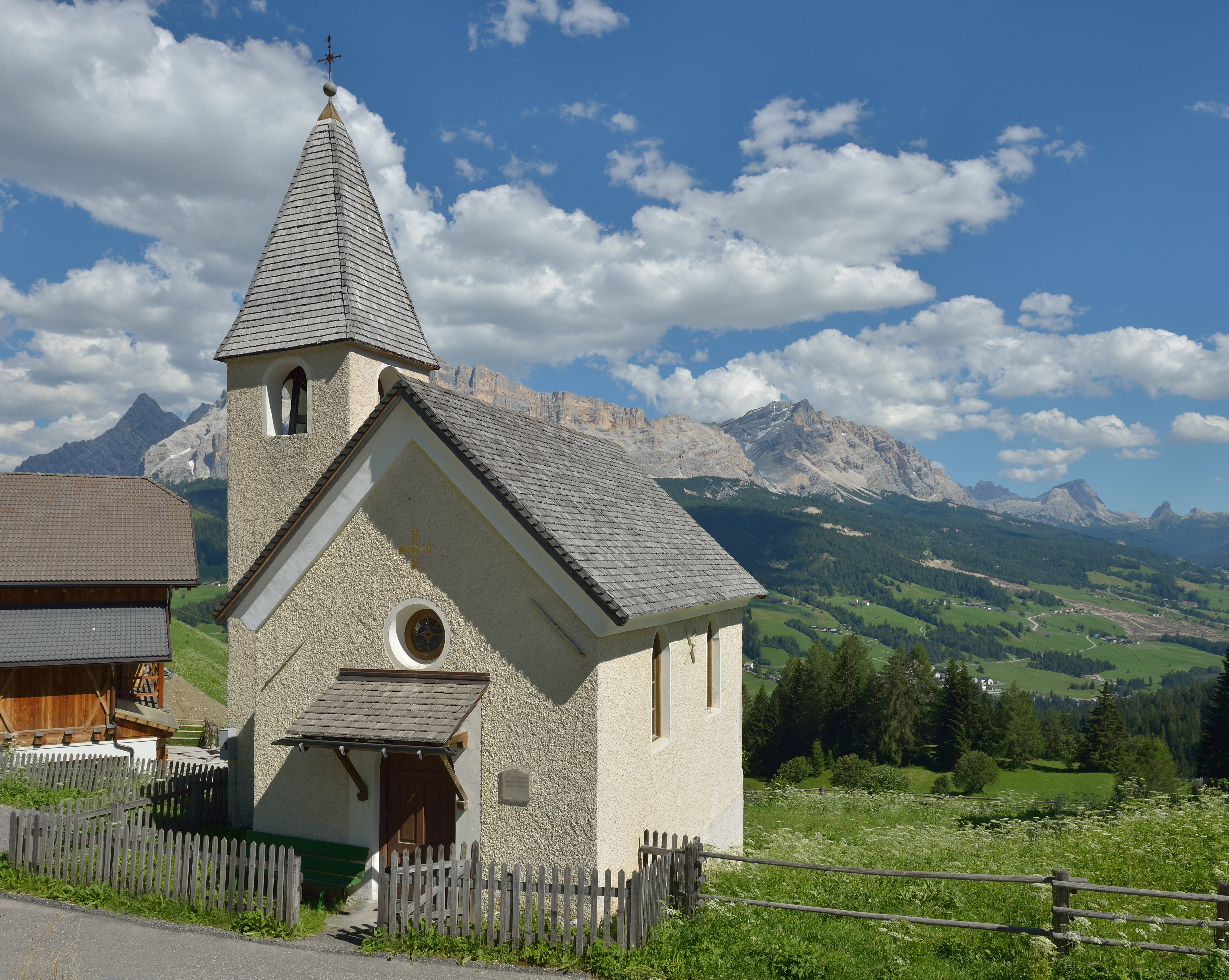 Saint Mary chapel at Pescol in Pedraces